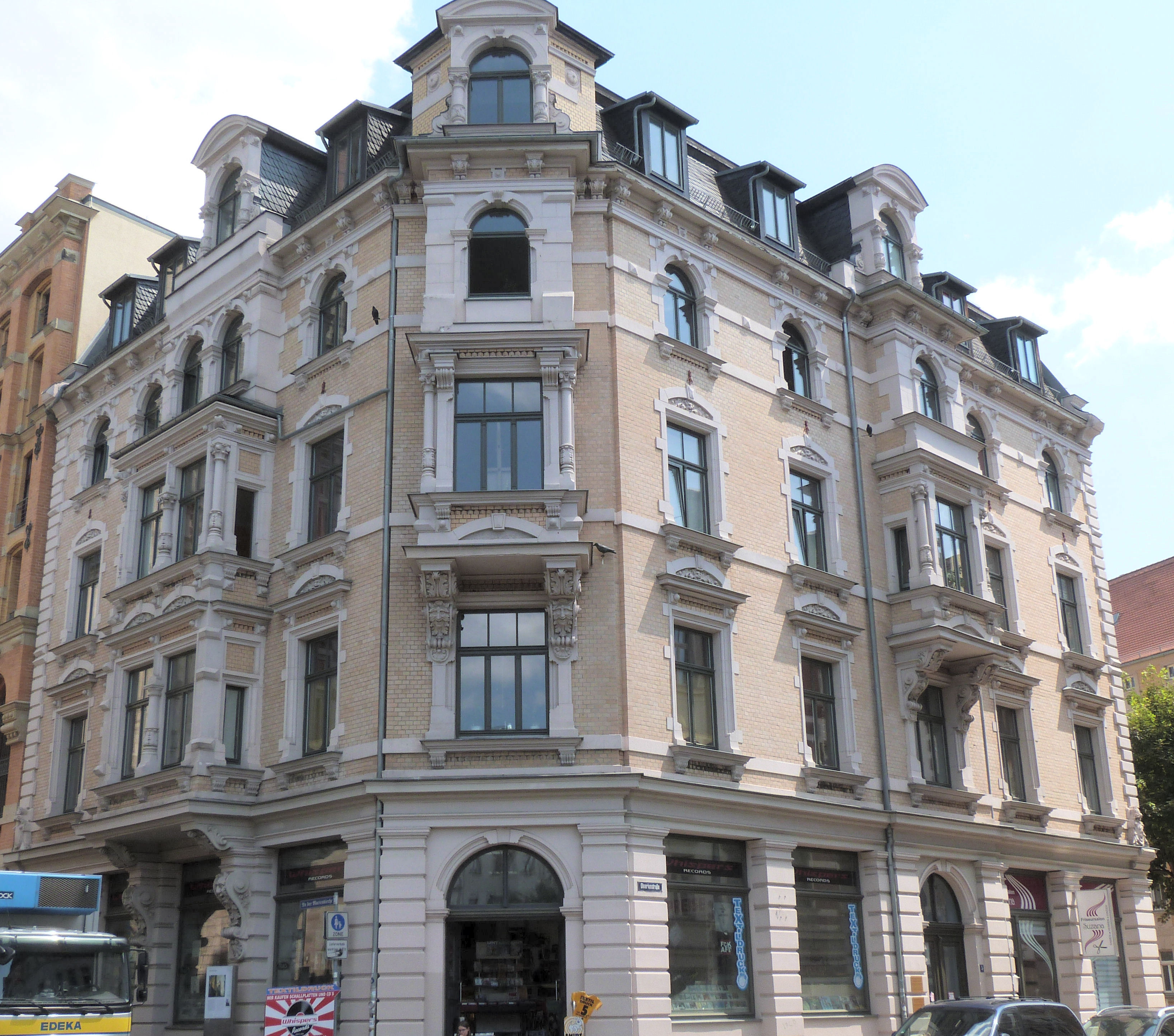 House No. 5, Oleariusstrasse in Halle (Saale)